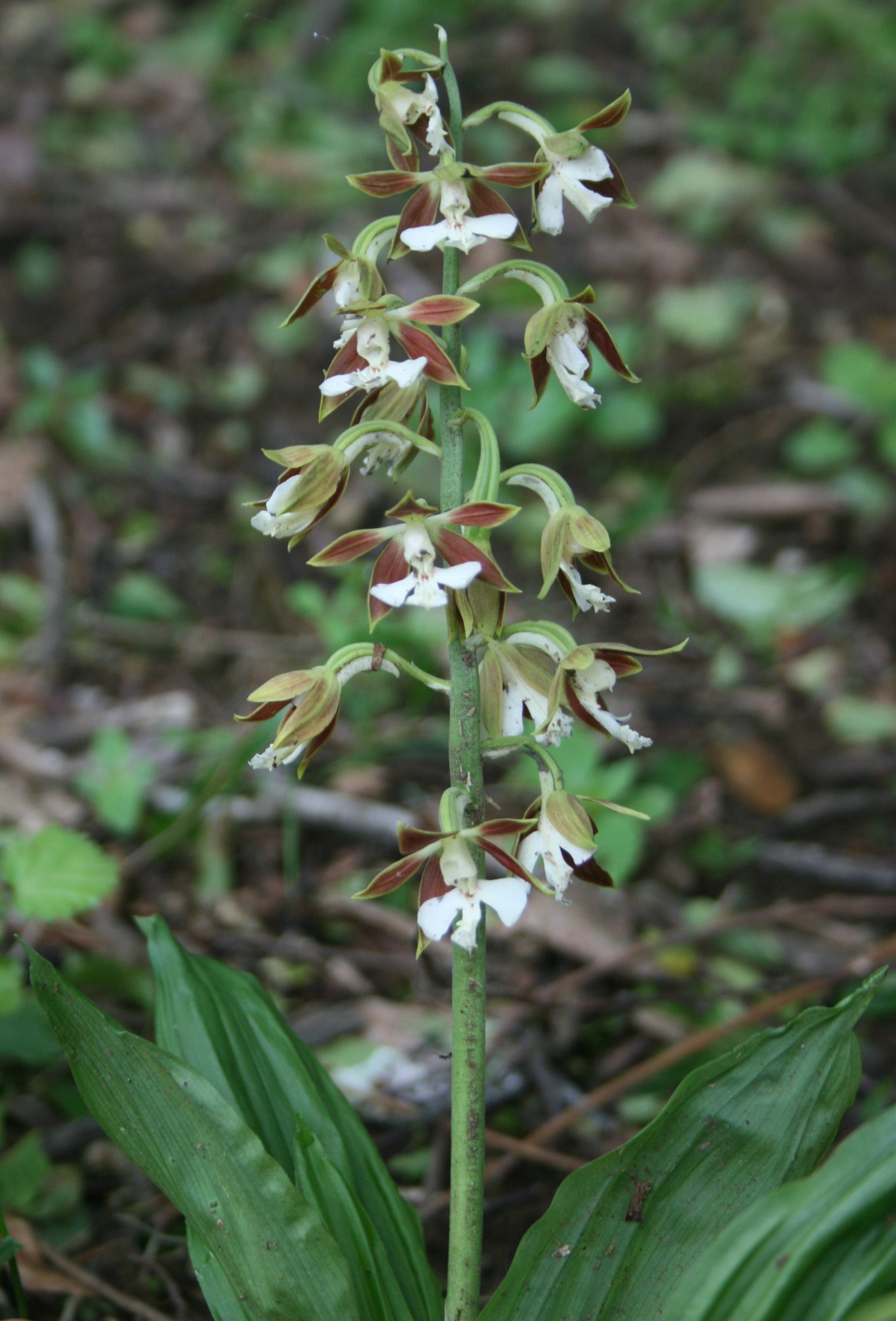 Calanthe discolor in Mount Ryozen of Suzuka Mountains